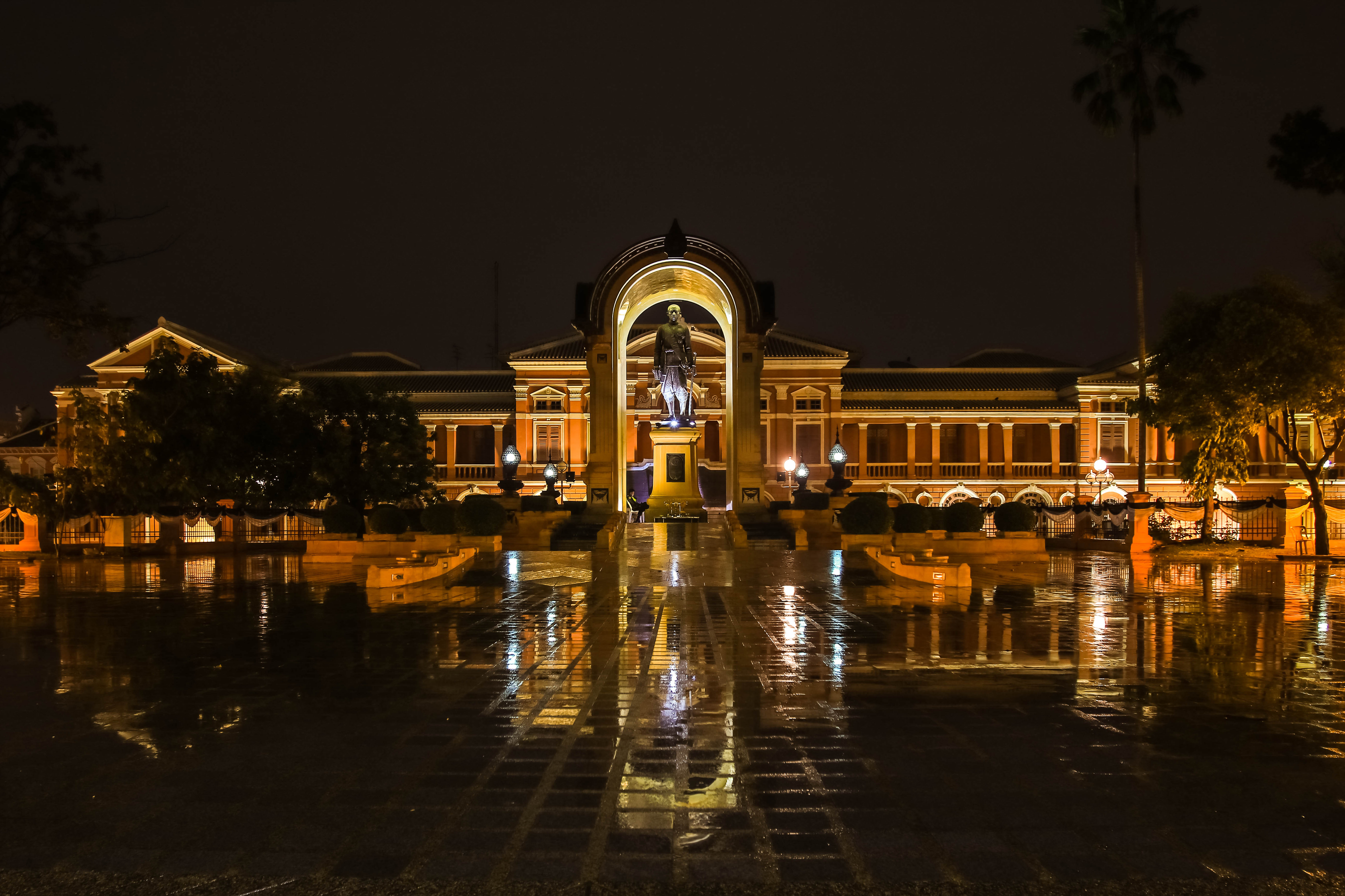 Saranrom Palace, Bangkok, Thailand.